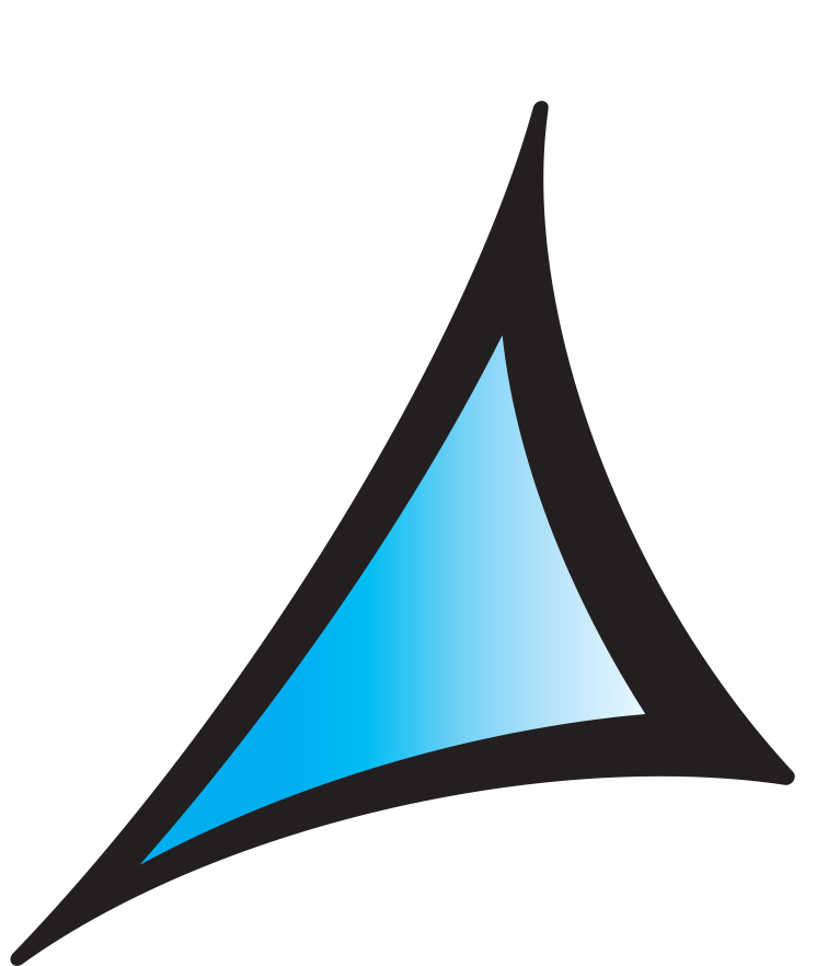 Official logo mark for Spirit of Atlanta